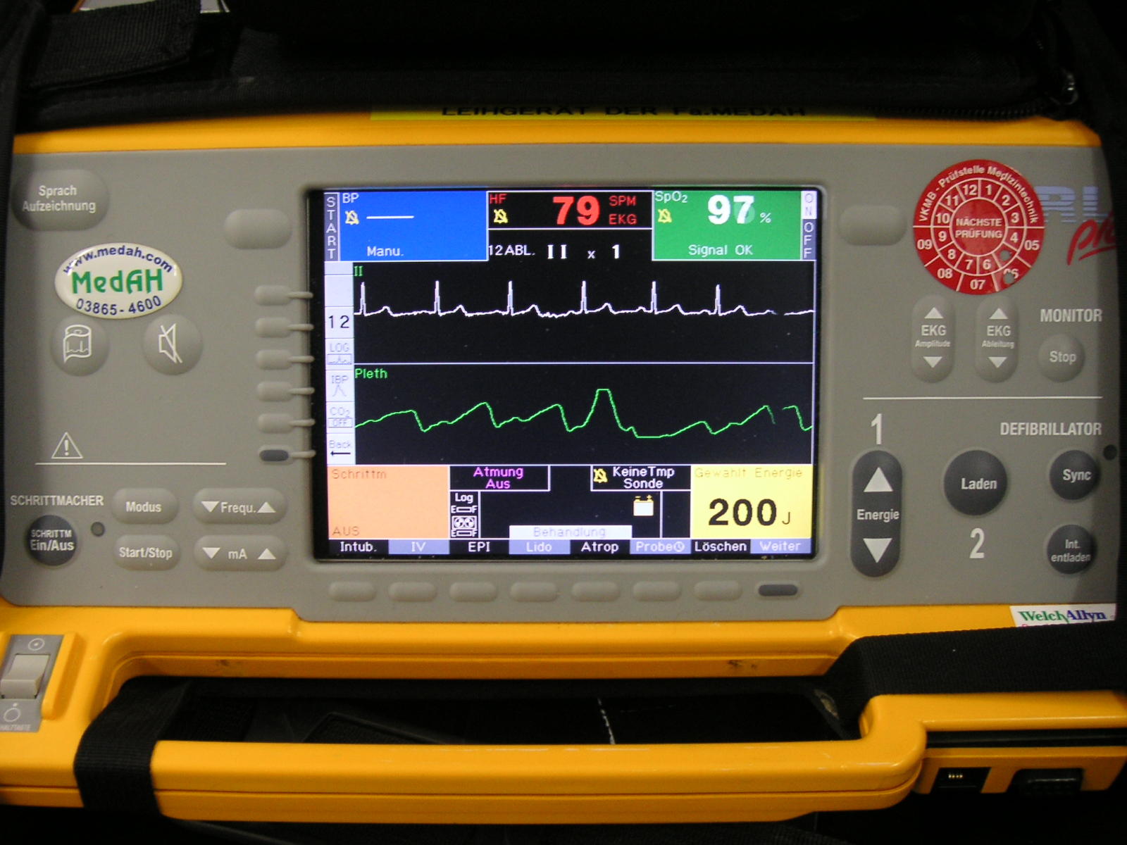 Closeup of a defibrillator/monitor/pacer from an ambulance in Graz, Austria. For a picture of the whole defibrillator, see the link below.